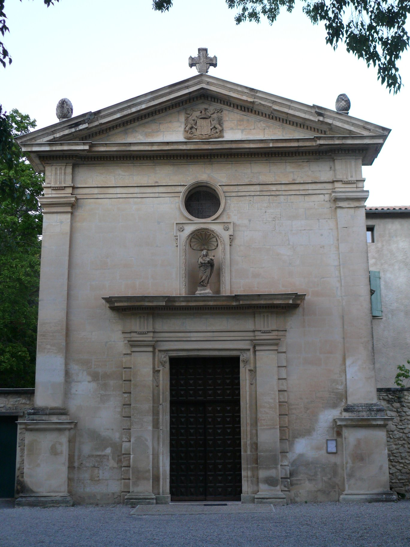 Our-Lady-of-Life's chapel in Venasque (Vaucluse, Provence-Alpes-Côte d'Azur, France).